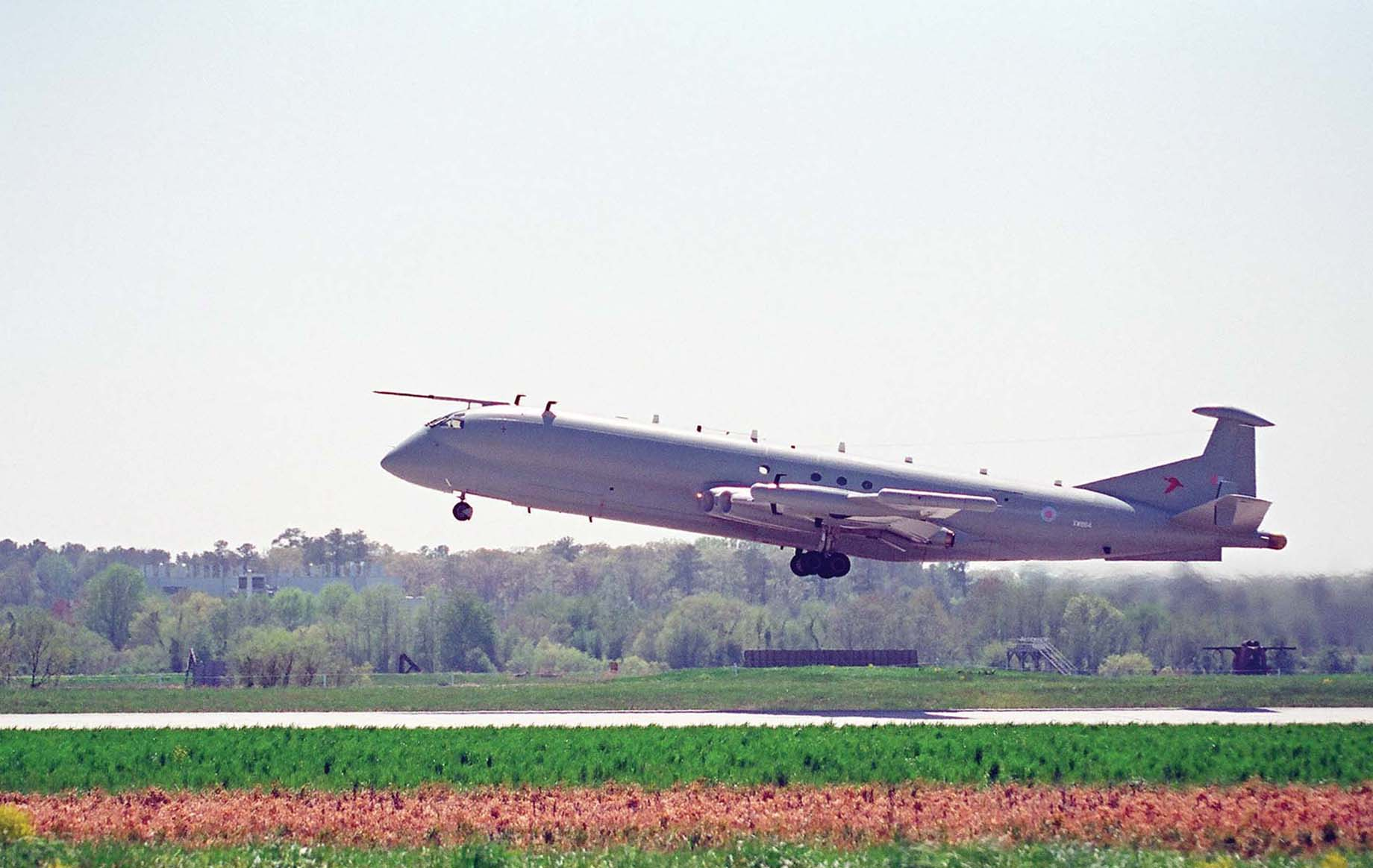 Hawker Siddeley (now BAE Systems) Nimrod R1